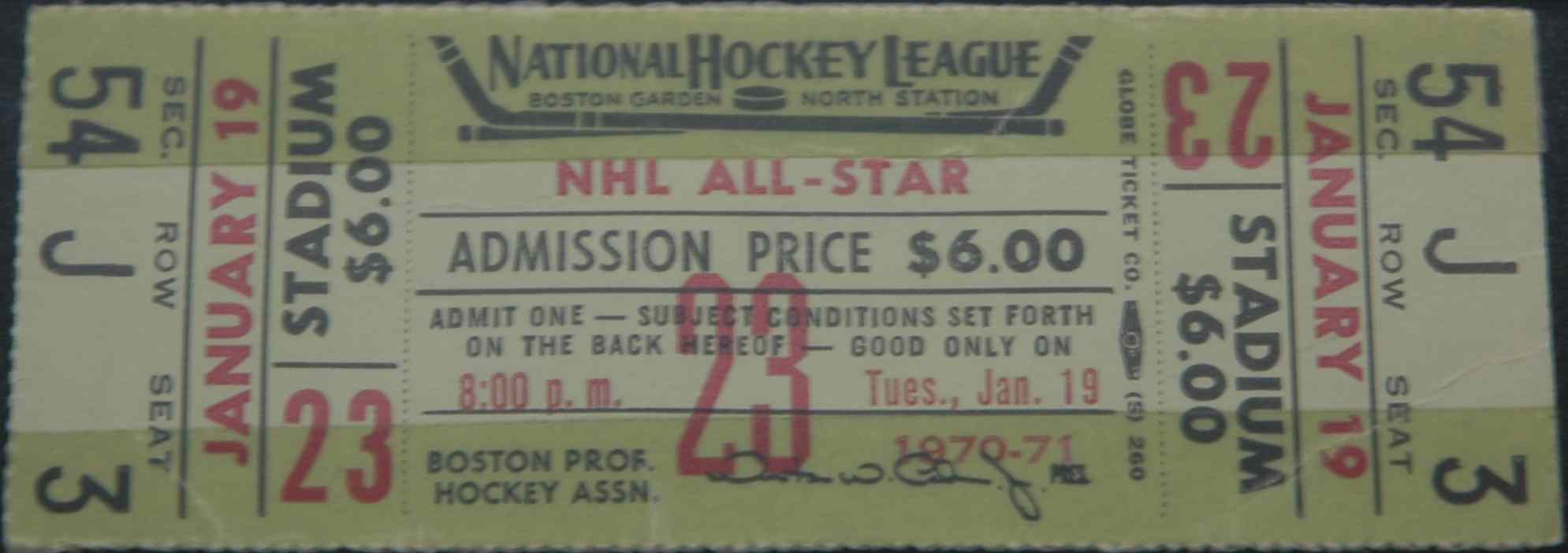 Ticket for the NHL All-Star Game 1971, shown in the Hall of Fame in Toronto